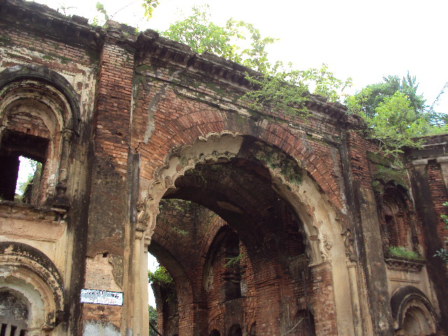 Namak Haram Deorhi (also known as the Traitor's Gate, Jafarganj Deorhi or Jufarganj Palace) was the palace of Mir Jafar. It is located just opposite the Jafarganj Cemetery in the Lalbagh area of the town of Murshidabad and near Mahimapur in the Indian state of West Bengal. Namak Haram Deorhi refers to both the place of Mir Jafar and the main gate which leads to the palace. This building was used as the residence of Mir Jafar, before he ascended the musnad of Bengal or when he was the Commander-in-Chief of the subha. This was the place where Nawab Siraj ud-Daulah was murdered.